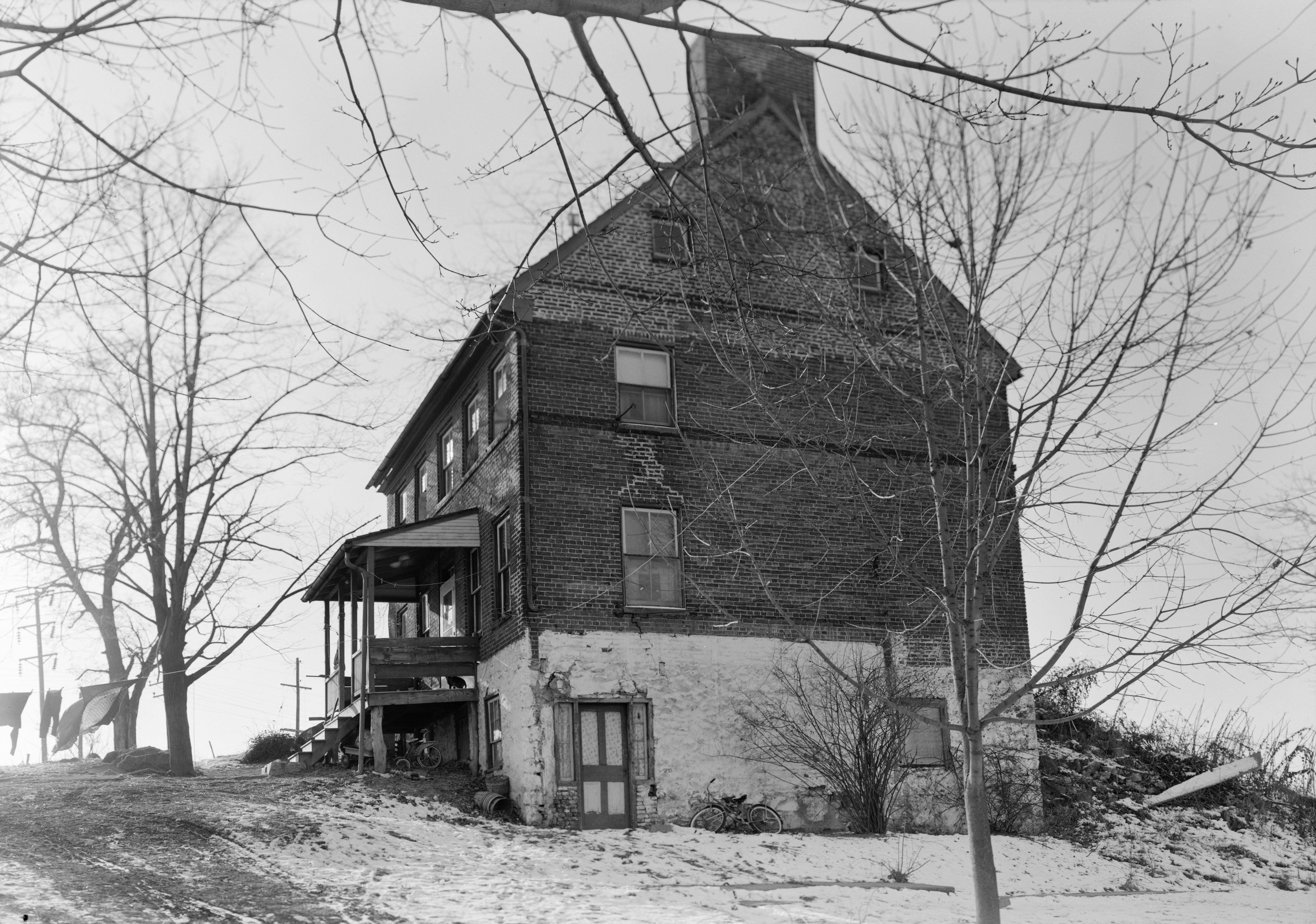 Southern side of the Willis House, located at 190 Willis Road north of York in Manchester Township, York County, Pennsylvania, United States. Built in 1762, it is listed on the National Register of Historic Places.